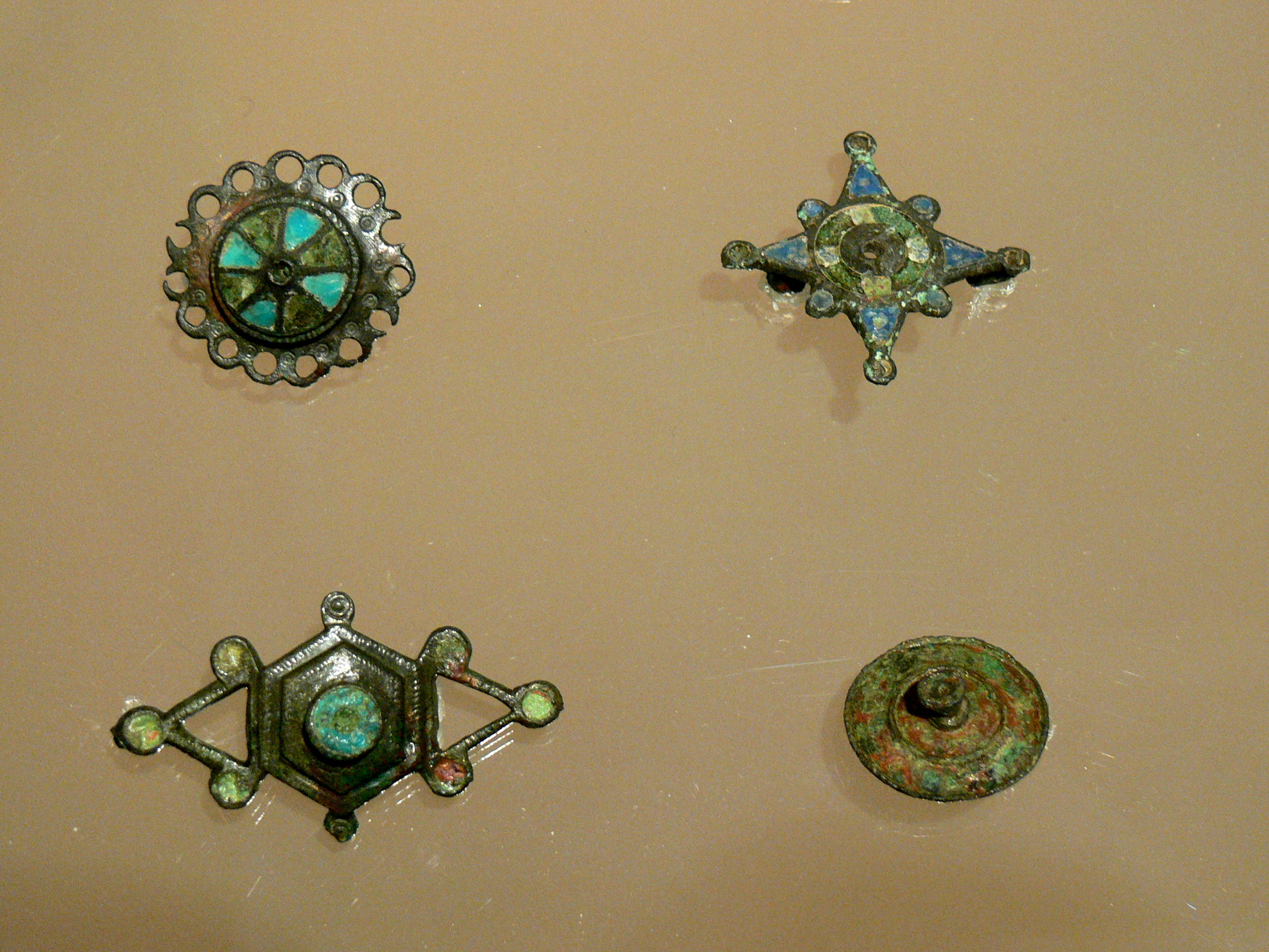 Museum Quintana - Roman department. Ancient Roman fibulae ( brooches ) from the Roman civil settlement in Künzing ( 2nd/3rd century )